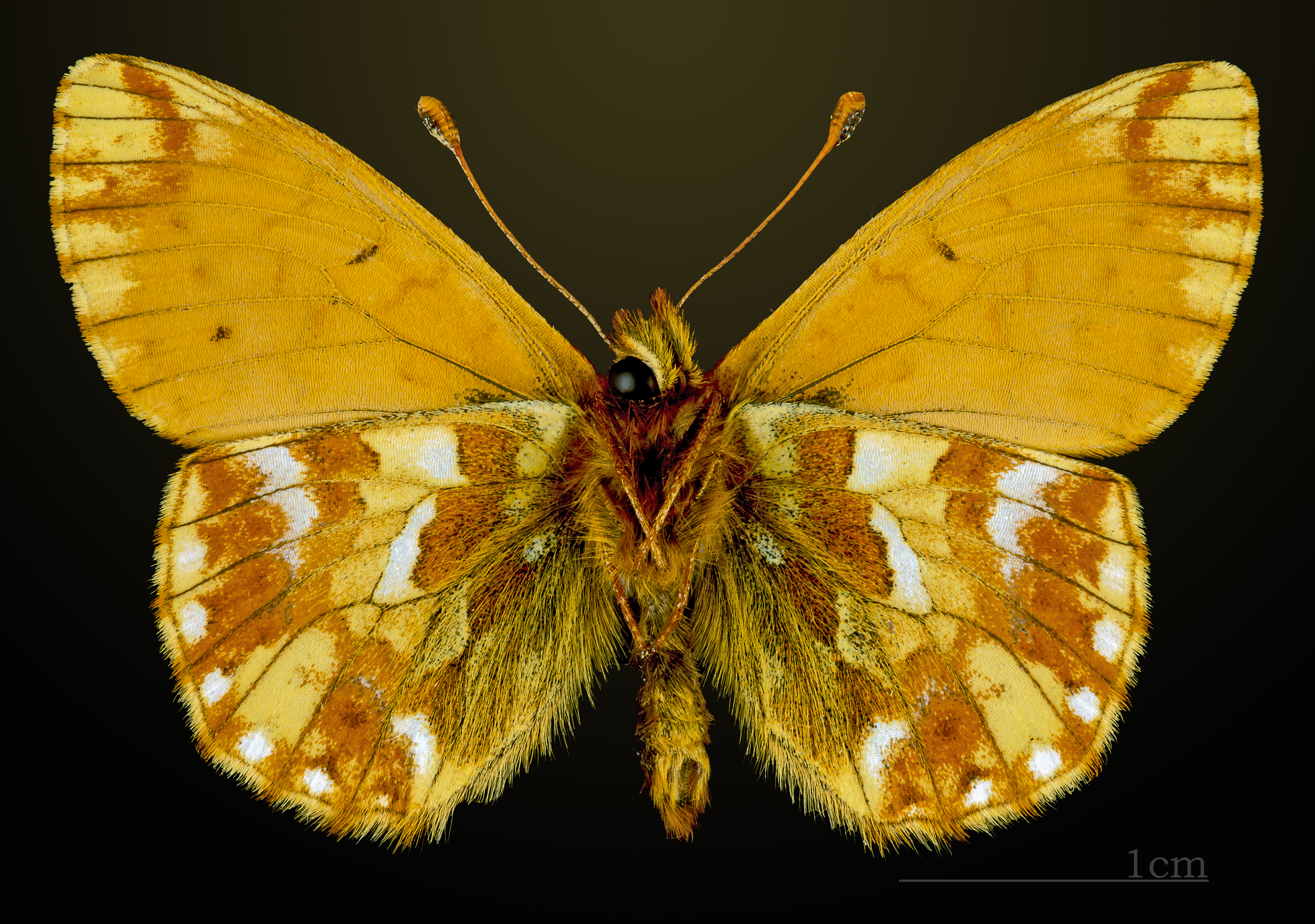 Shepherd's Fritillary - △ Ventral side Locality: Col du Lautaret, Hautes-Alpes, France